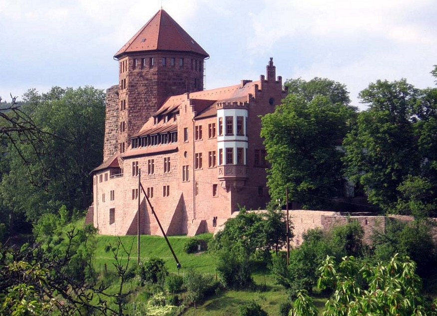 Photograph by Charles Nix